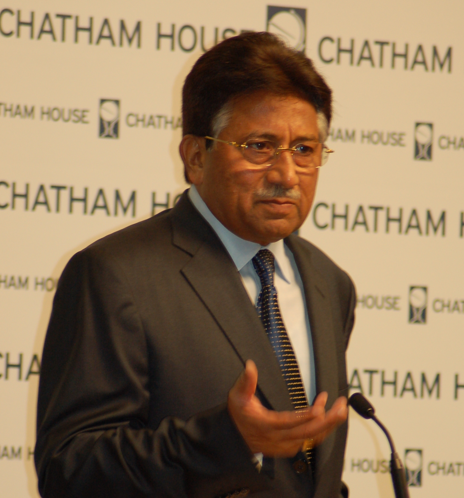 General (Retired) Pervez Musharraf, President of Pakistan (2001-2008)